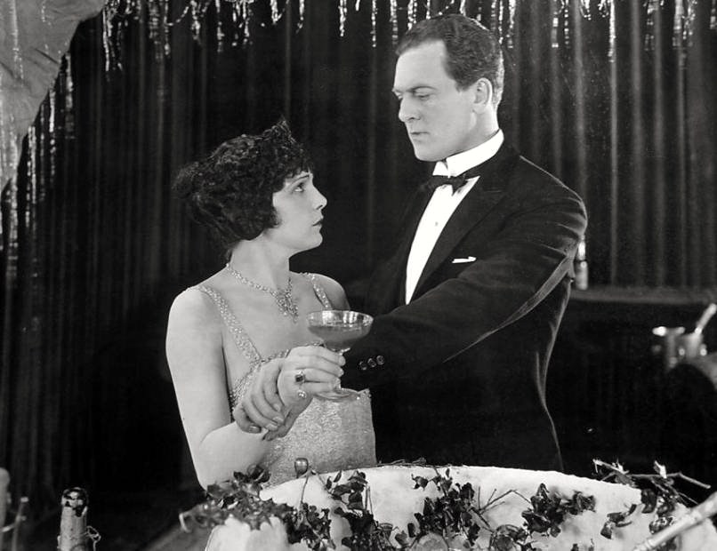 Leatrice Joy & Thomas Meighan in Manslaughter - cropped screenshot